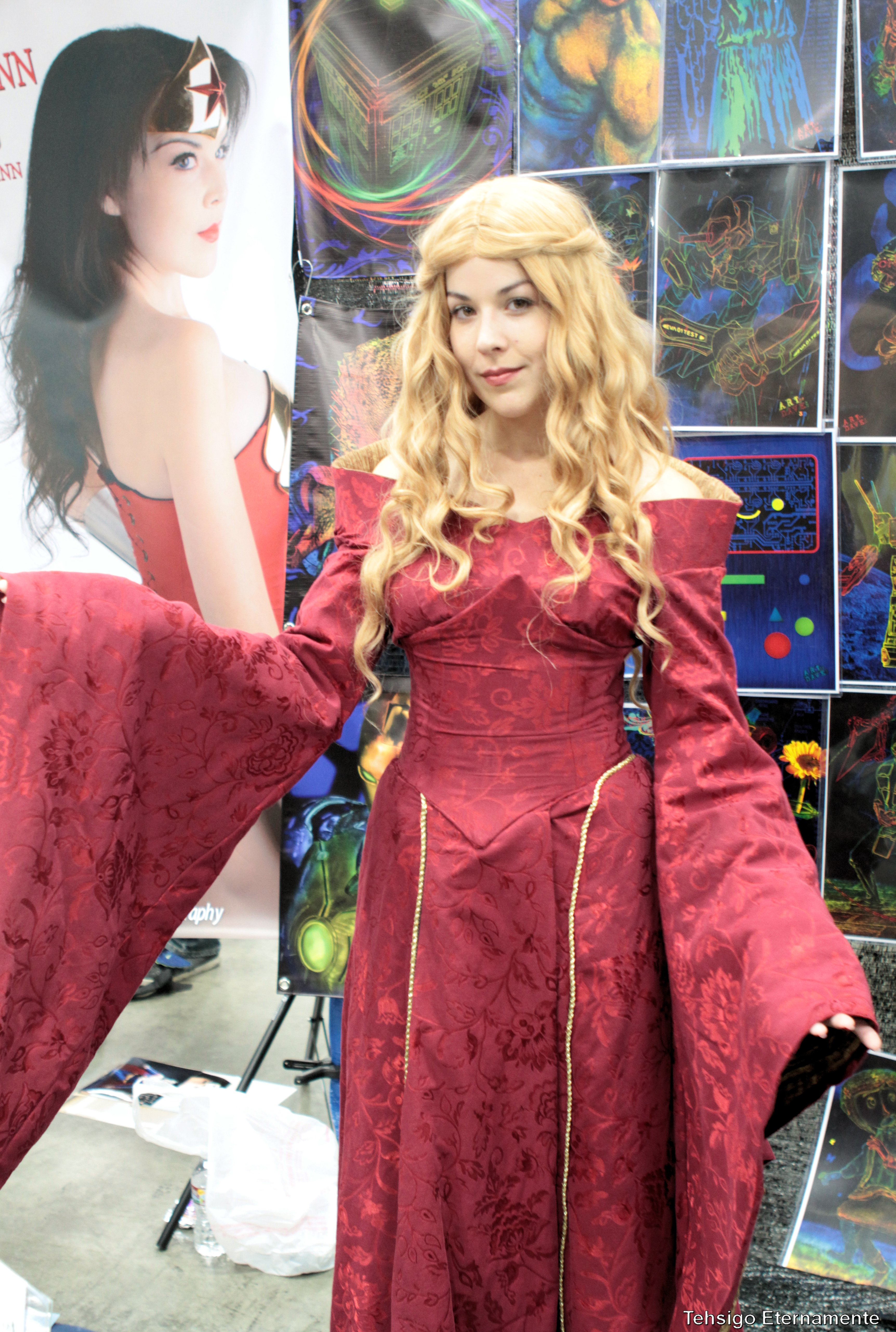 Miss Kit Quinn cosplaying at Nuke the Fridge Con, November 2014.